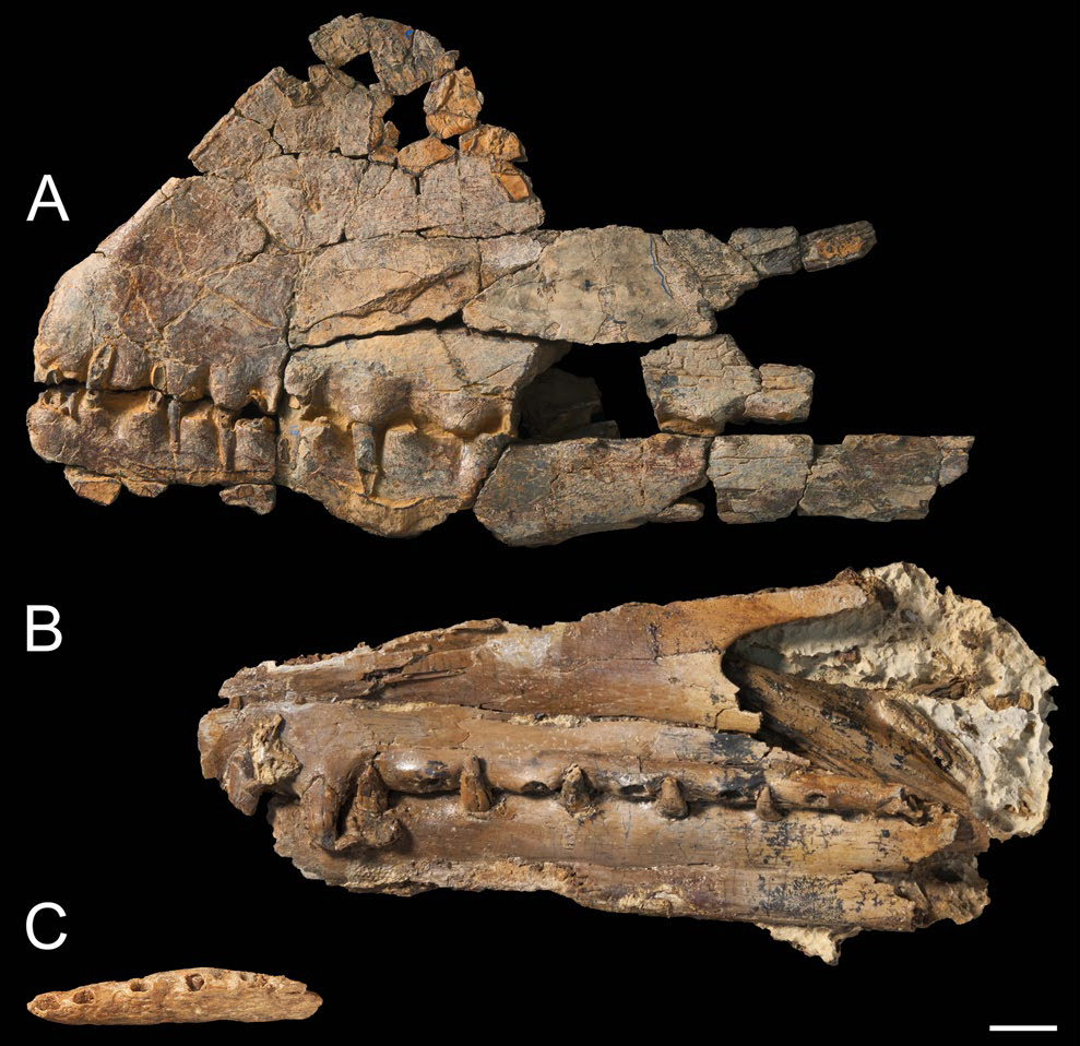 Holotype skull and mandible of the ornithocheirid Ferrodraco (A), holotype skull and mandible of the ornithocheirid Mythunga (B), and holotype mandible of the targaryendraconian Aussiedraco (C).